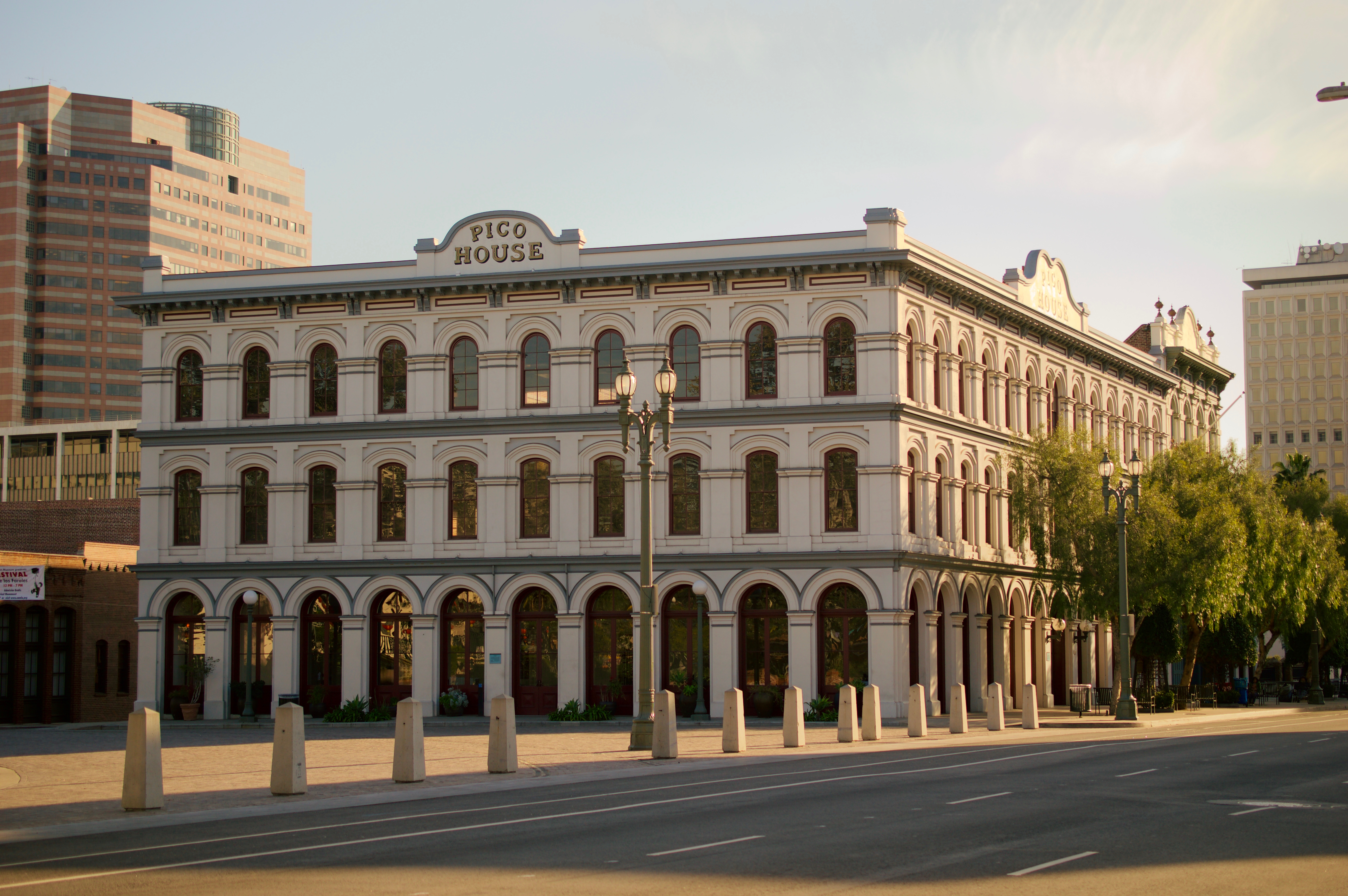 Pico House at El Pueblo (Olvera Street) in Downtown Los Angeles